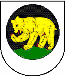 Coat of arms of Grub, Canton of Appenzell Ausserrhoden, Switzerland